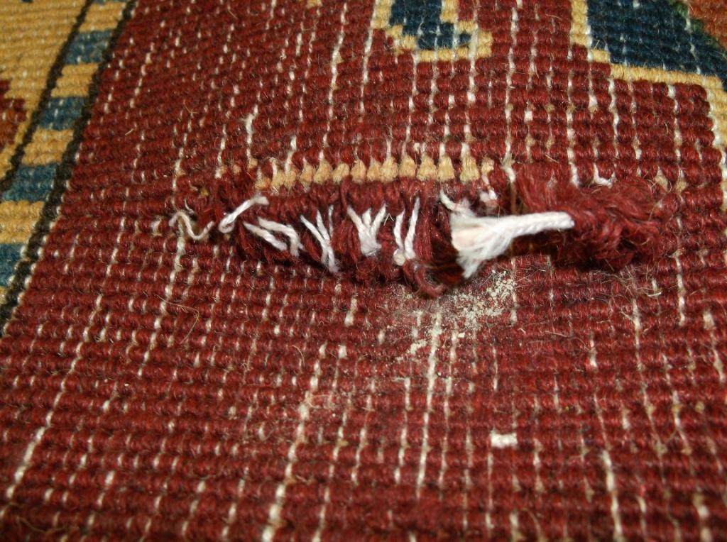 Smugglers weave heroin into the fabric of hand-made knotted carpets in a bid to avoid detection at Manchester Airport, England.